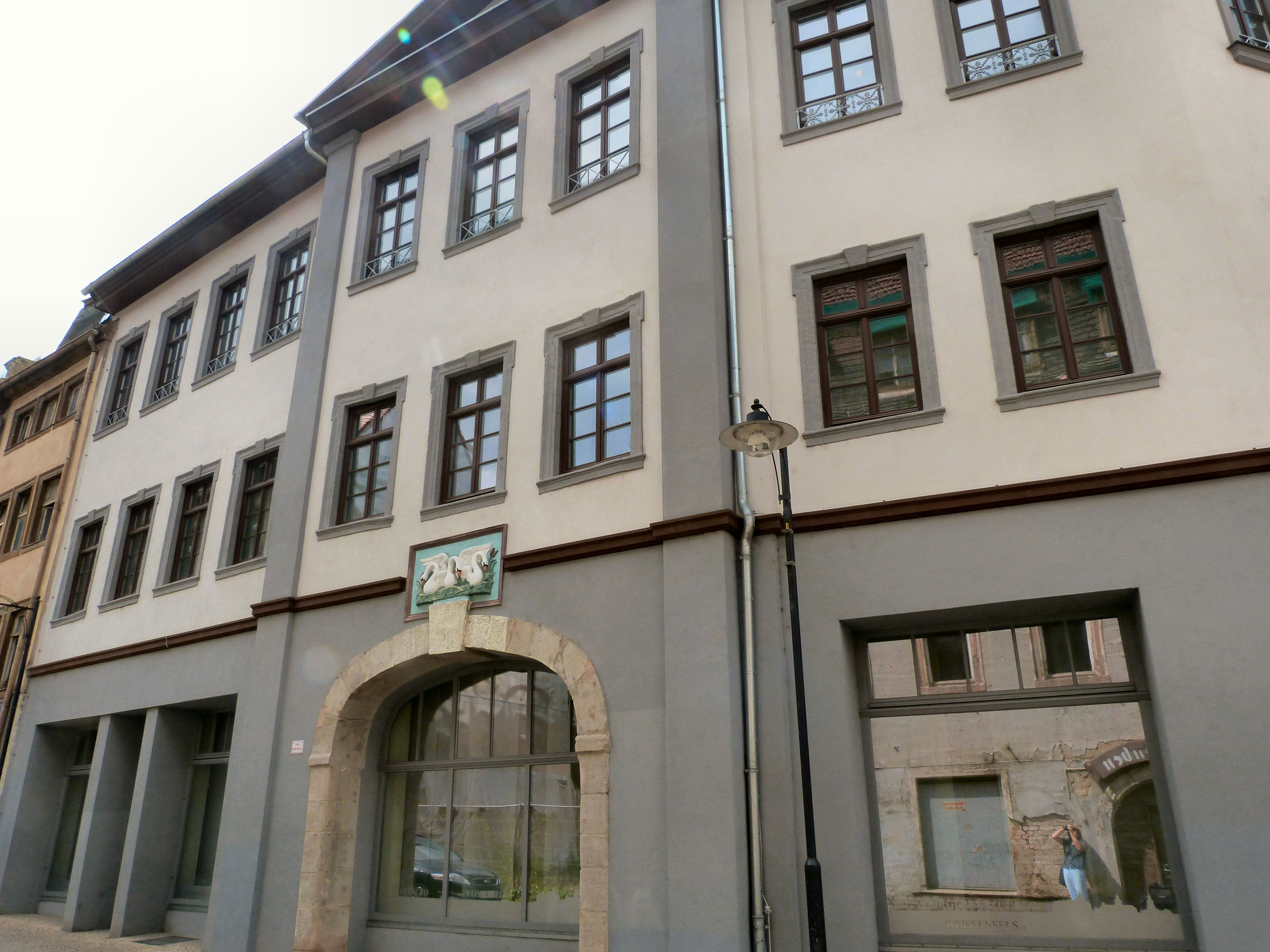 House No. 1, Grosse Burgstrasse in Weissenfels, Saxony-Anhalt, former inn Zu den drei Schwänen